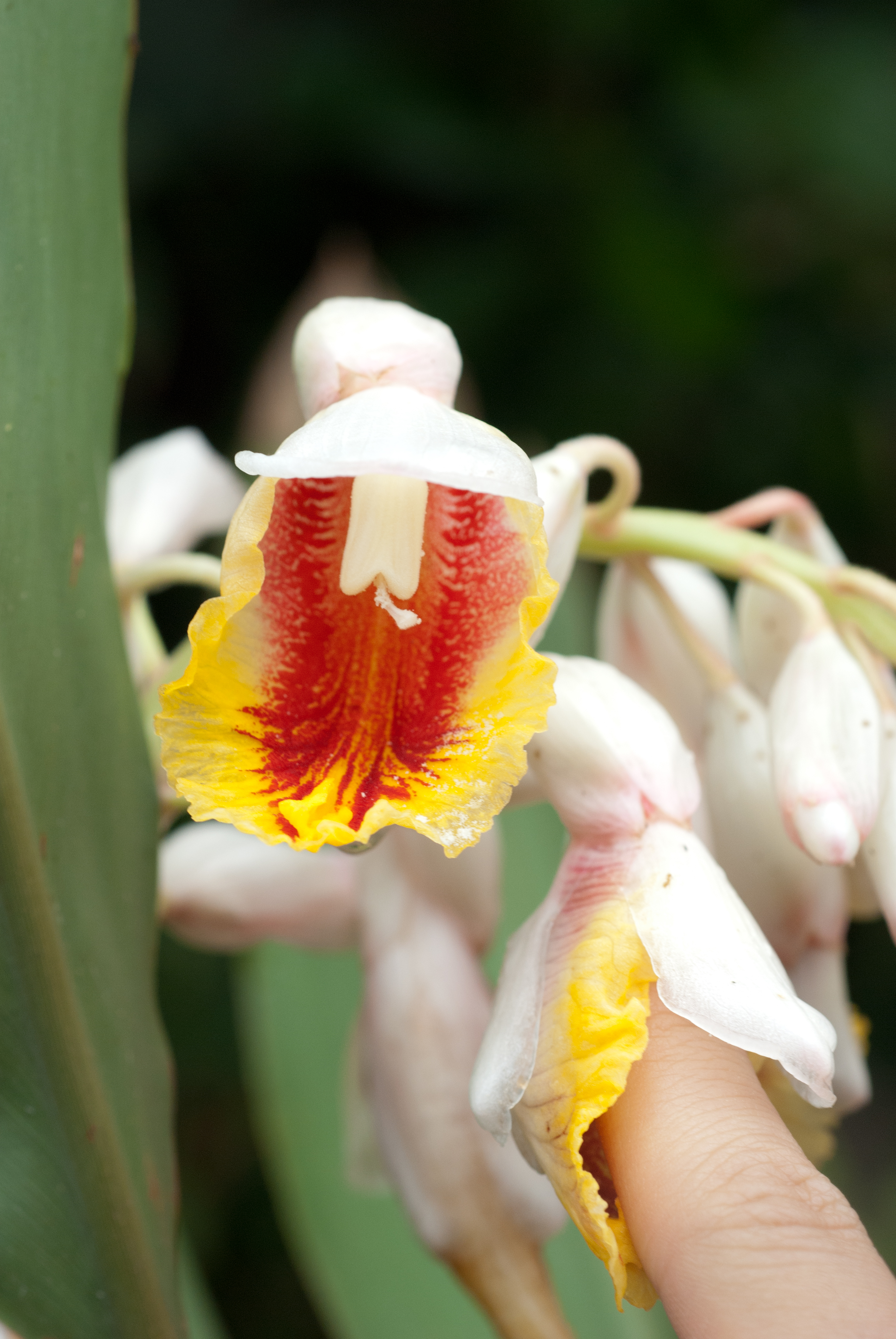 Alpinia speciosa.